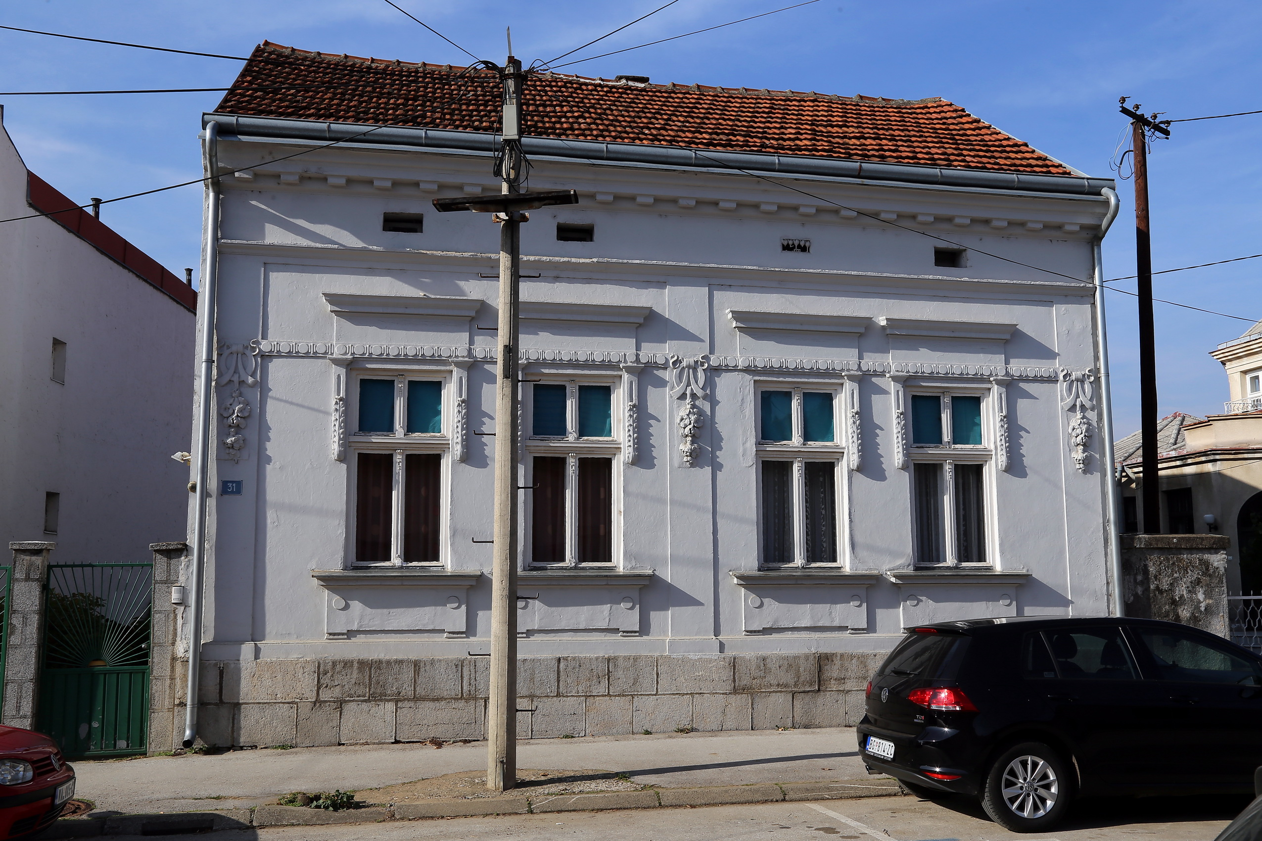 House in Pop Lukina street, number 13 in Valjevo